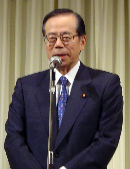 Future Japanese Prime Minister Rep. Yasuo Fukuda (1936–, in office September 2007– ) welcomes his supporters at his fundraising party held at Akasaka Prince Hotel, Tokyo.